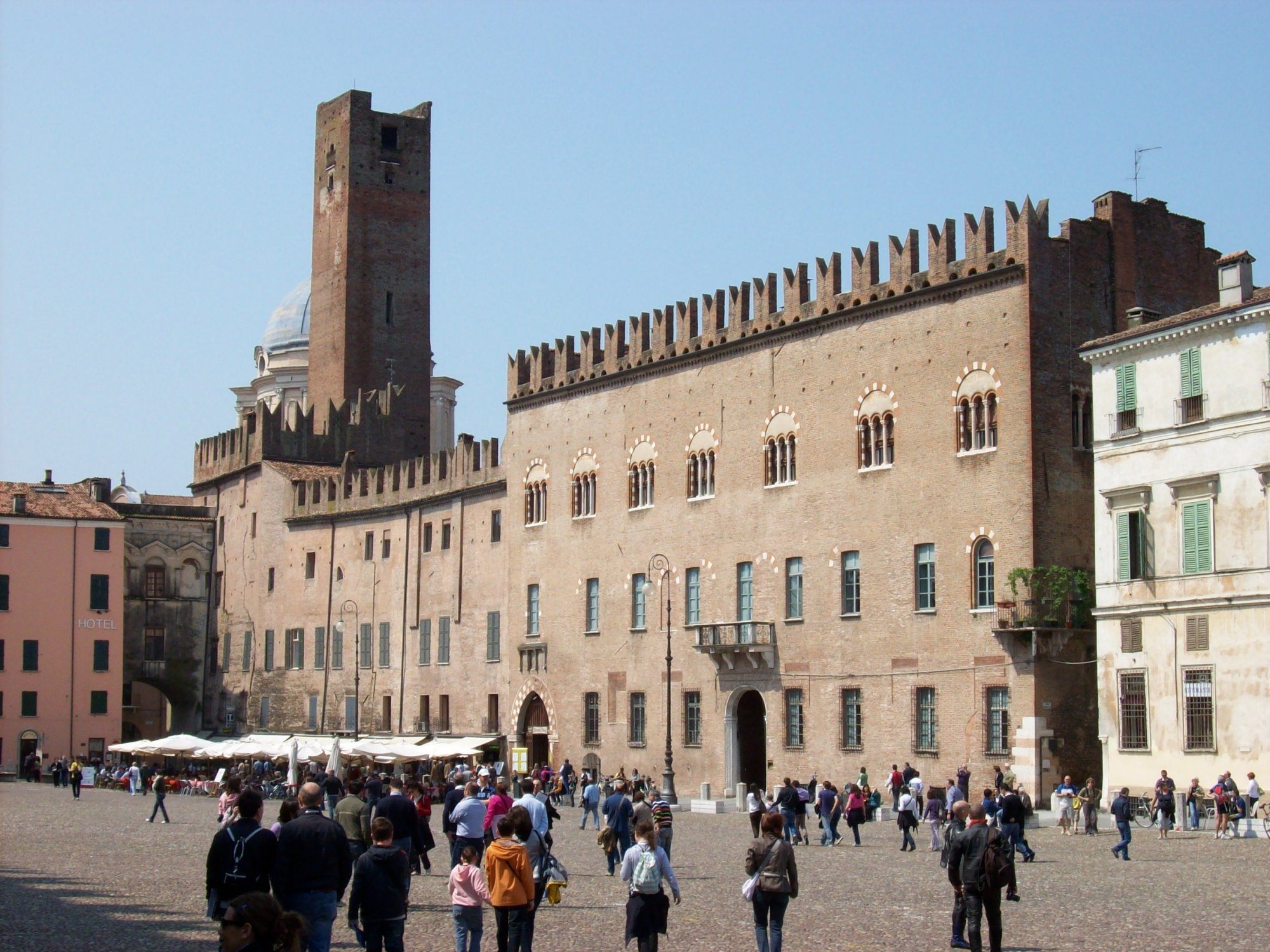 Palazzo Castiglioni Bonacolsi in Piazza Sordello, Mantua (Italy)